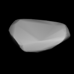 3D convex shape model of 1369 Ostanina, computed using light curve inversion techniques. J. Hanuš, J. Ďurech, M. Brož, B. D. Warner (June 2011). "A study of asteroid pole-latitude distribution based on an extended set of shape models derived by the lightcurve inversion method". Astronomy and Astrophysics 530: A134. ISSN 0004-6361. arXiv